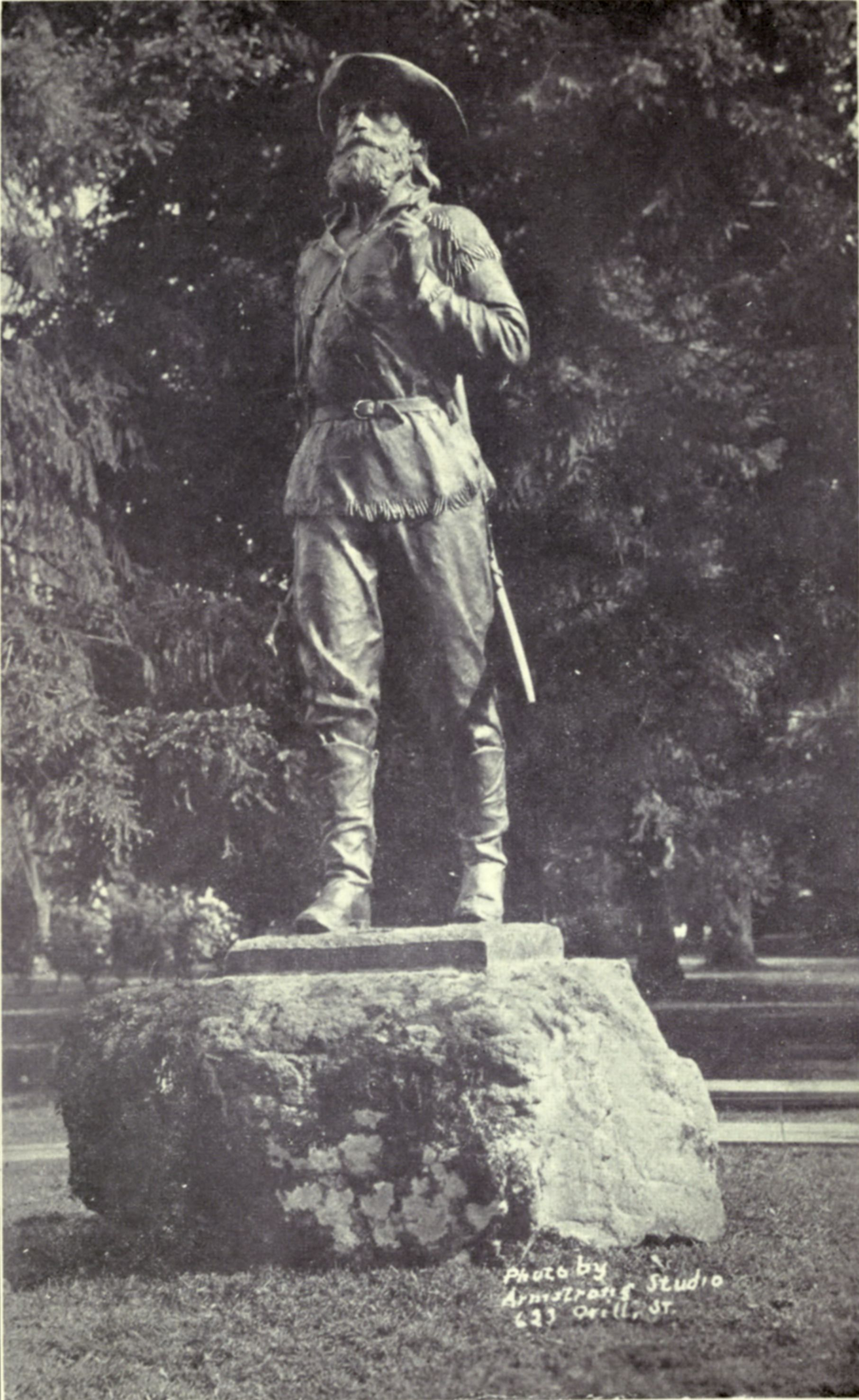 The Pioneer, statue on the University of Oregon campus, in 1919. Sculpture by A. Phimister Proctor, based on J.C. Cravens.